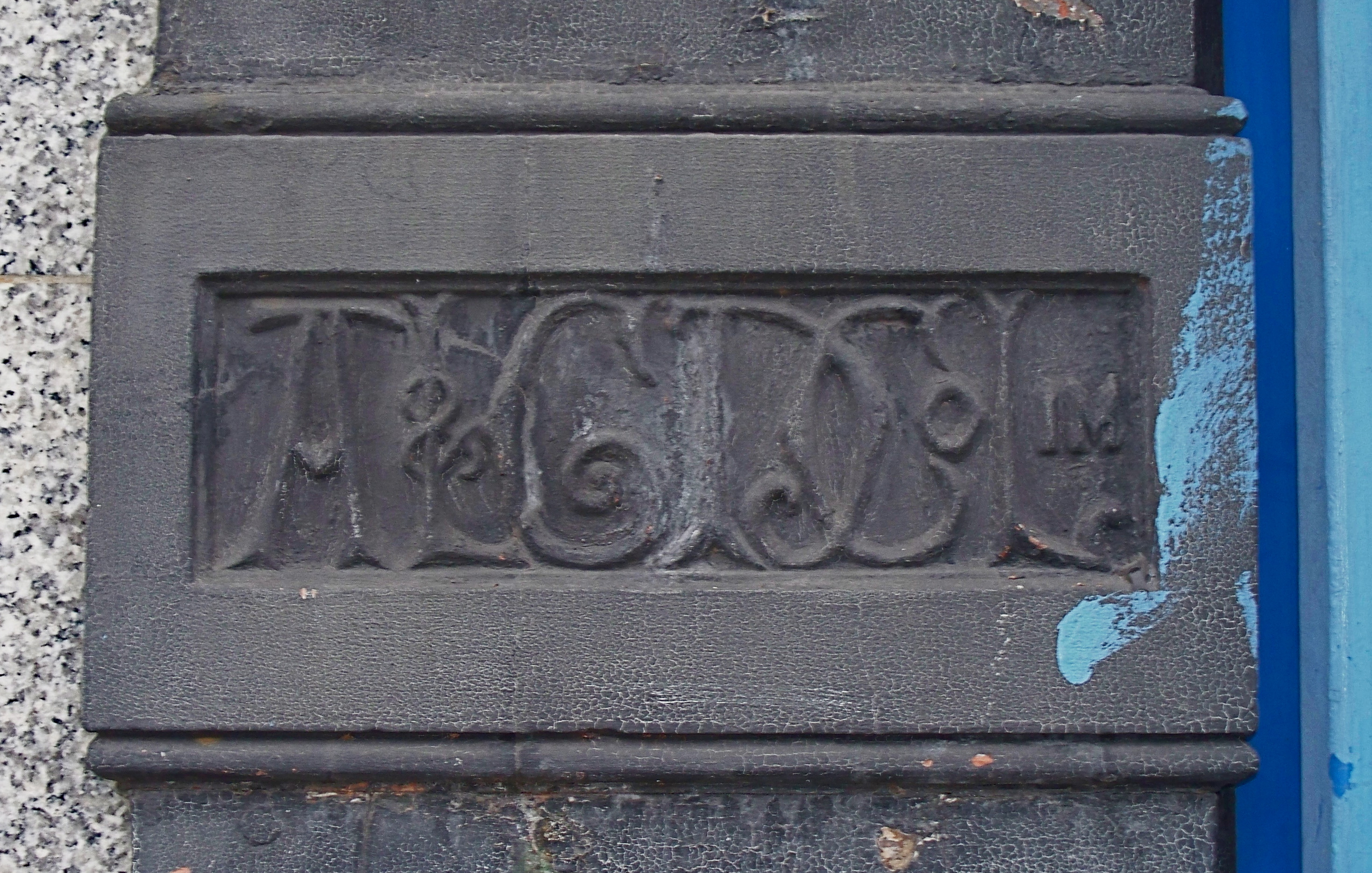 Artizans, Labourers and General Dwellings Company (Artizans Company) emblem, High Road, London N22. Photograph taken in a public location in the UK of a building on permanent public display, and exempt from copyright under Section 62 of the Copyright Designs & Patents Act 1988 ("it is not an infringement of copyright to film, photograph, broadcast or make a graphic image of a building, sculpture, models for buildings or work of artistic craftsmanship if that work is permanently situated in a public place or in premises open to the public")